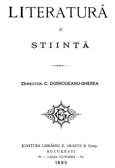 First page of Literatură şi ştiinţă, published by Editura Librăriei E. Graeve Comp., Bucureşti in 1893, director Constantin Dobrogeanu-Gherea.